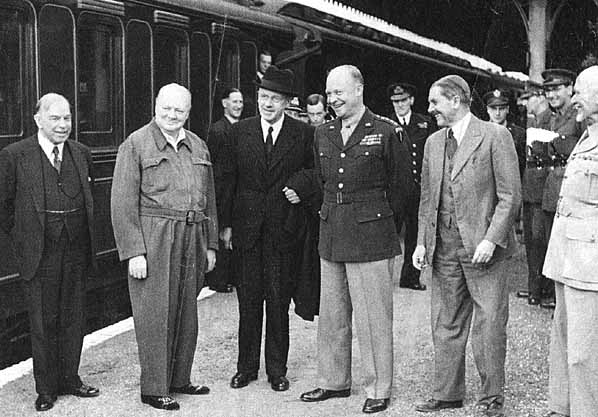 Churchill just prior to D-Day (L-R) William Lyon Mackenzie King, Churchill, Peter Fraser, Eisenhower, Godfrey Huggins, Jan Smuts